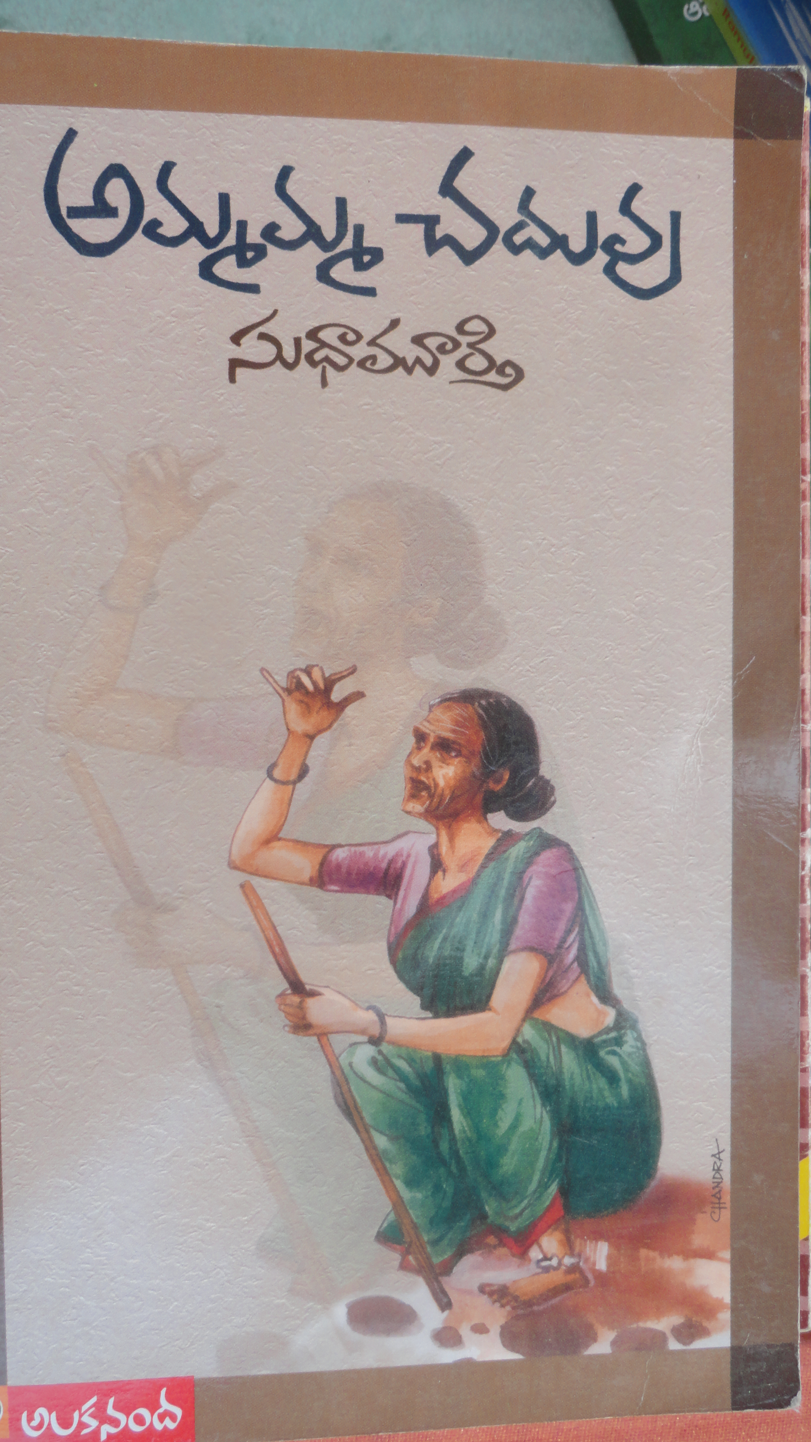 book cover; ammacaduvu